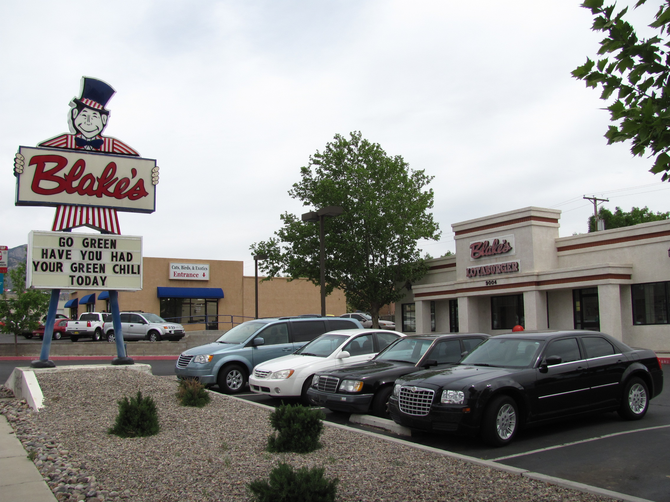 Blake's Lotaburger on Montgomery Boulevard, Albuquerque New Mexico